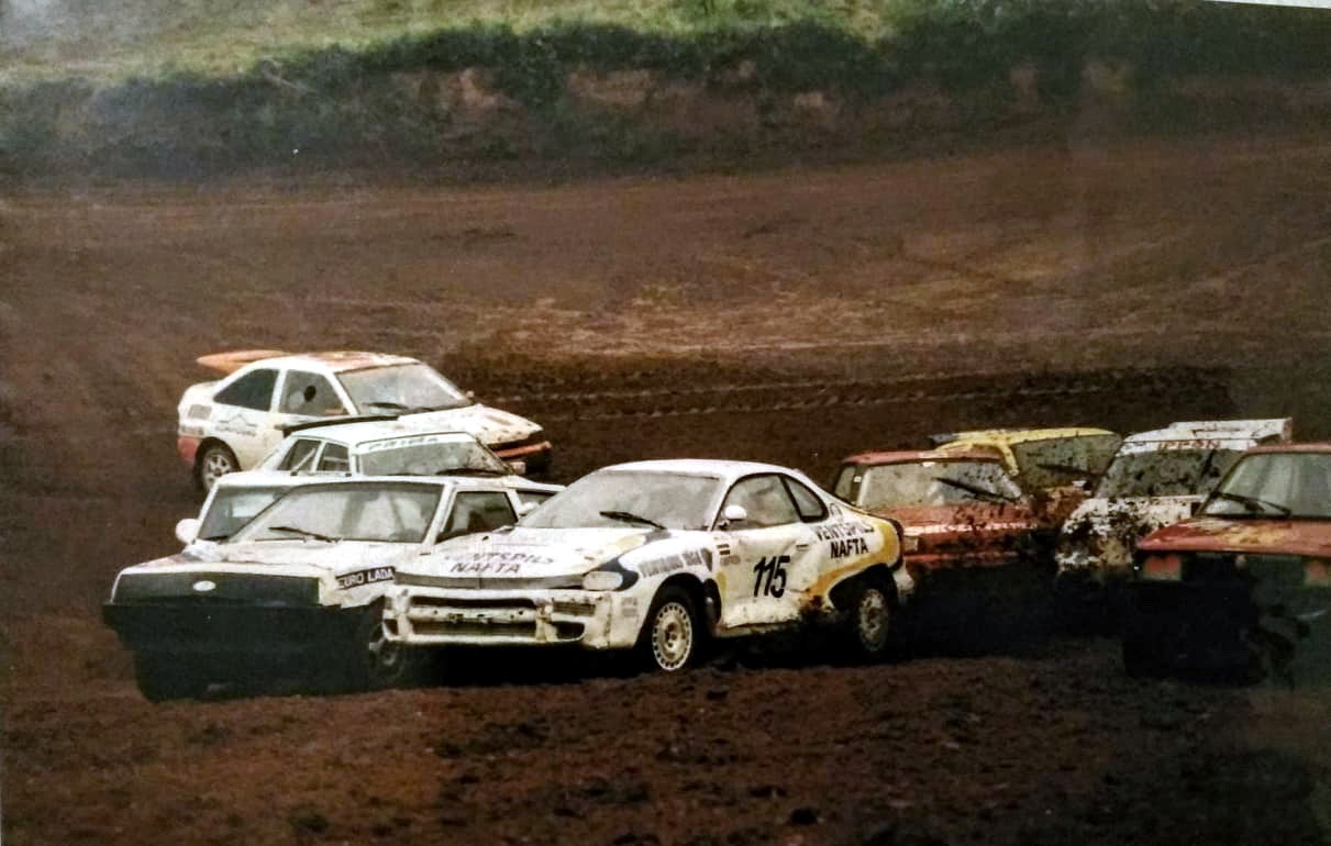 European Autocross Championship 1997, Czechia (Nová Paka). Division 1. Boris Kotello (Lada Samara), Aldis Zebergs (Toyota Celica), battle for leadership.